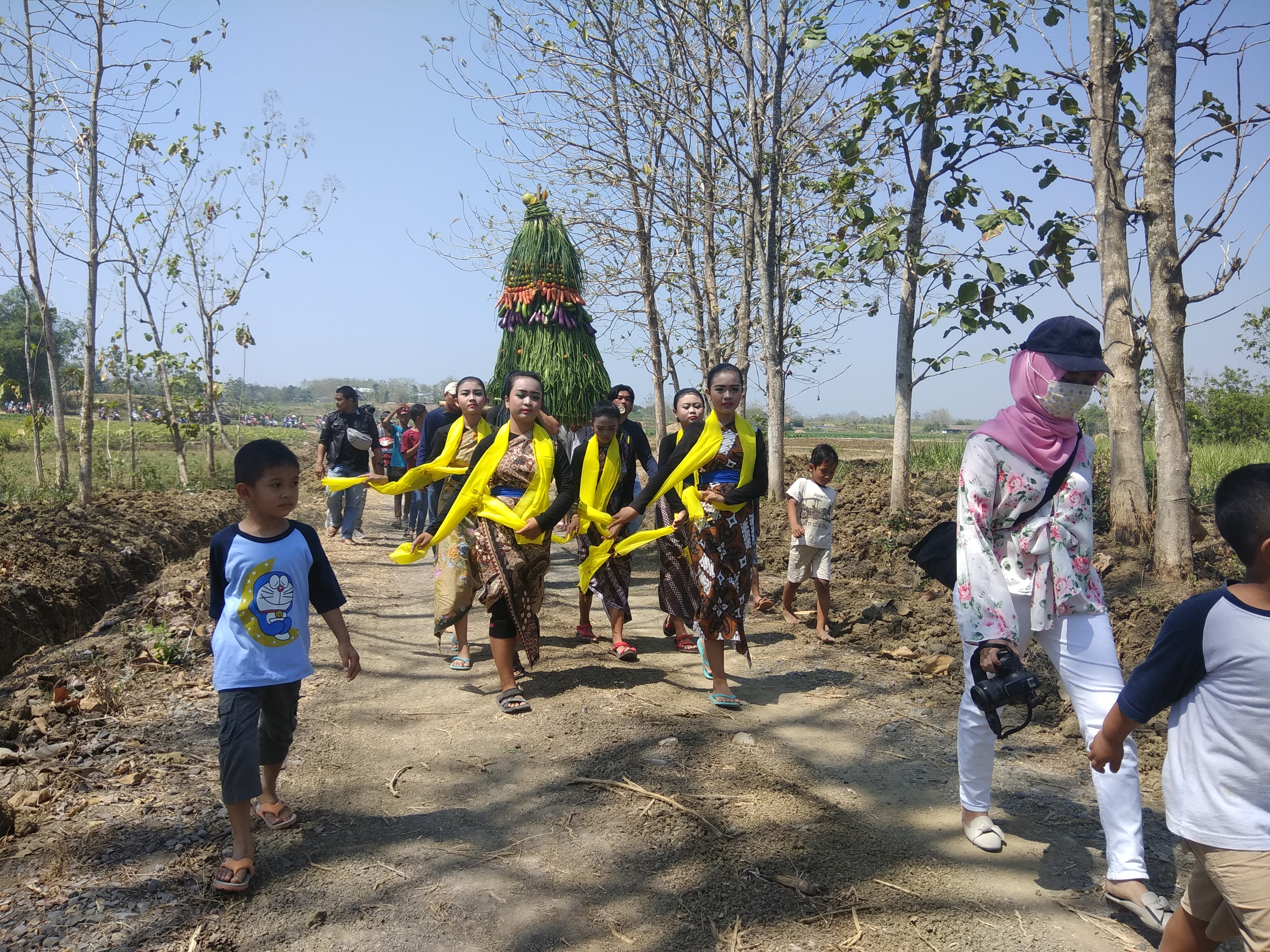 Kirab Gunungan Sedekah Bumi, Desa Sekararum (The Parade of Farm Harvester, Sekararum Village) 26 July 2018